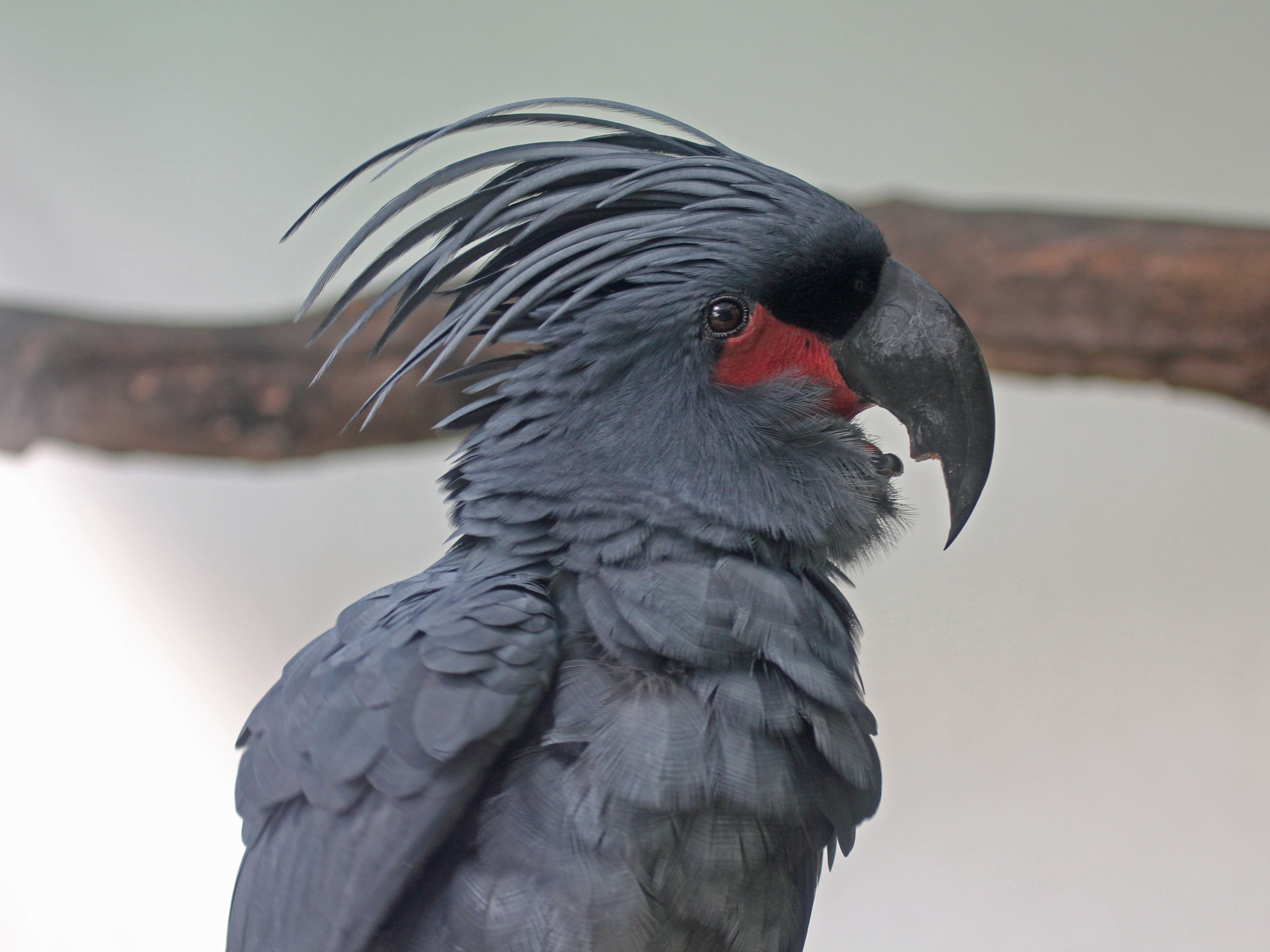 Palm Cockatoo (Probosciger aterrimus) at Jungle Island of Miami, Florida